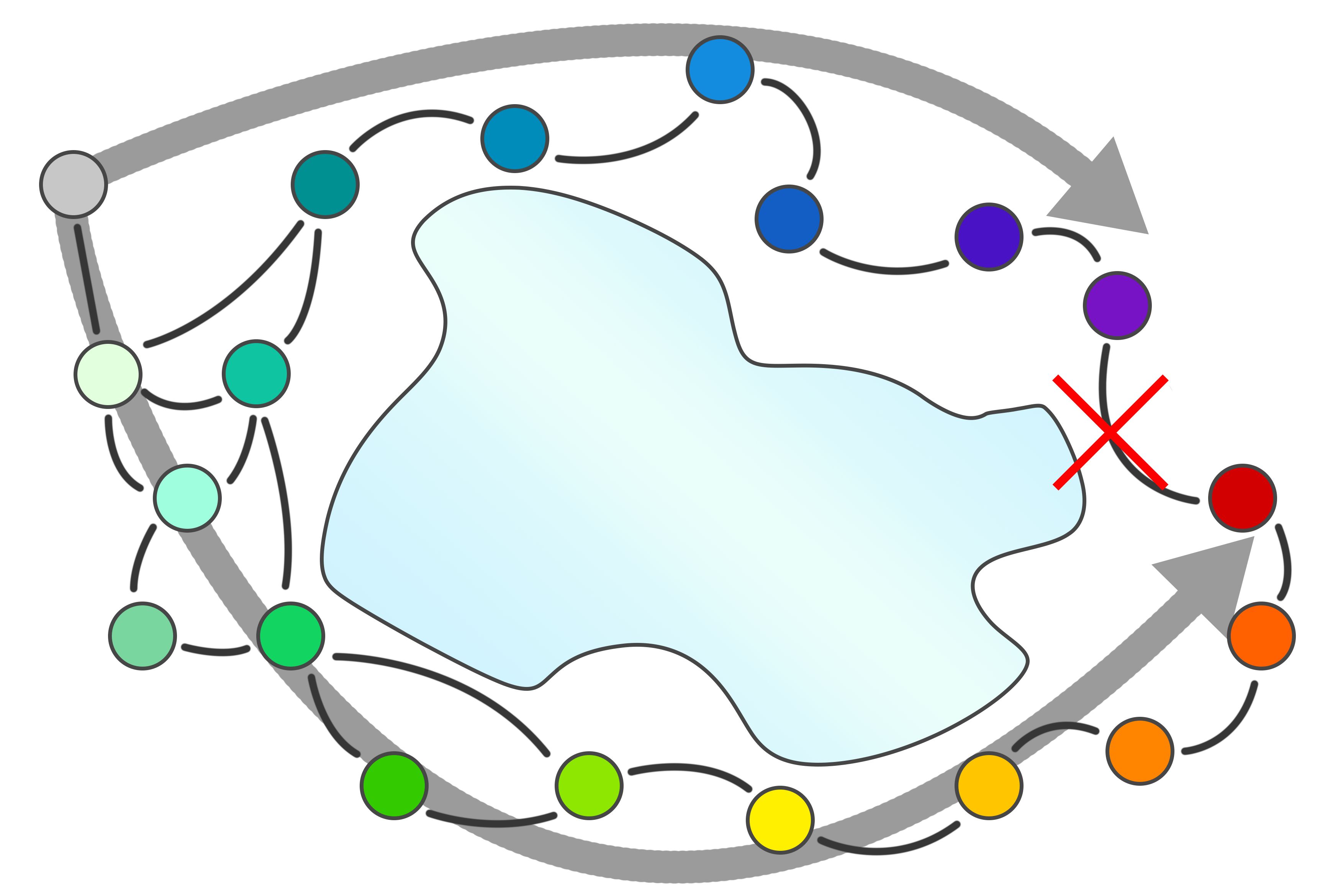 A schematic representing a ring species. Individuals are able to successfully reproduce (exchange genes) with members of their own species in adjacent populations. Individuals of the population, separated by a barrier, are unable to reproduce when they come into contact again. This process represents a form of speciation occurring with gene flow.